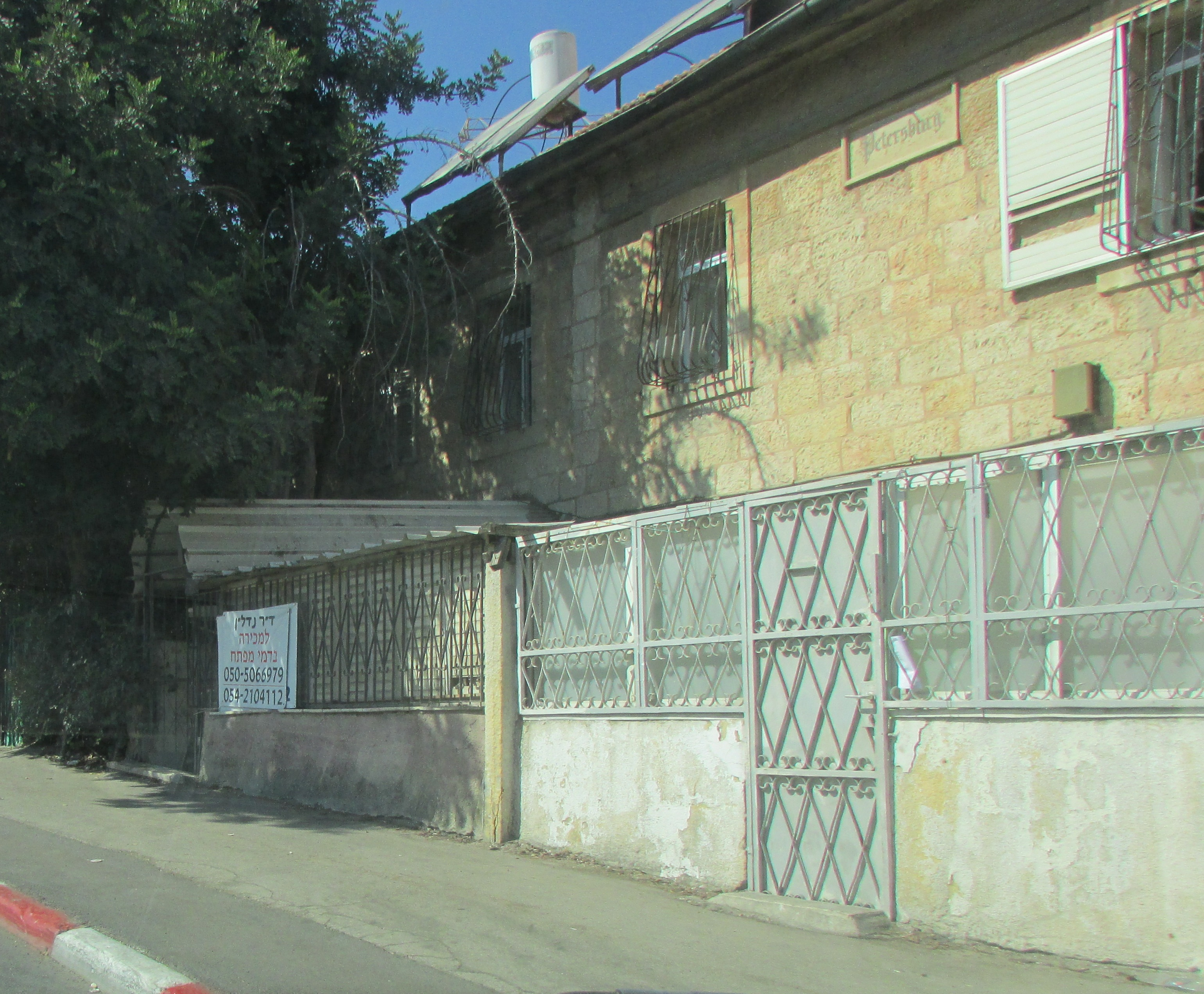 A house in Jerusalem with a sign for sale stating it is for "key payment"